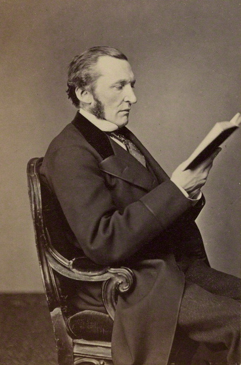 Portrait of Hugh Cairns, 1st Earl Cairns